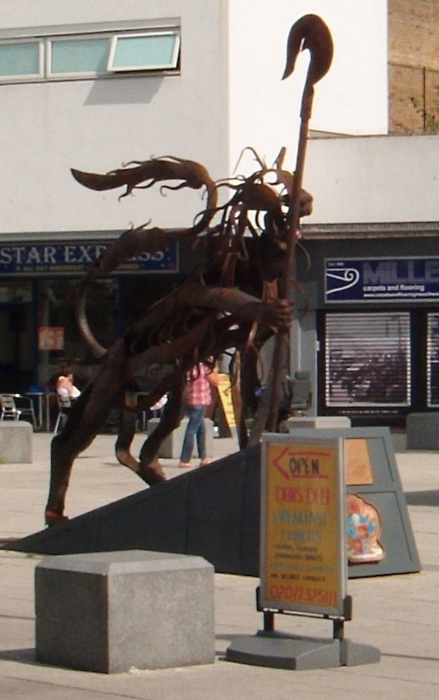 This representation of the Bermondsey Lion in The Blue was created by Kevin Boys for Southwark Council. It was unveiled by the Worshipful the Mayor of Southwark, councillor Lorraine Lauder MBE, Flo Weller and Kyle Quin on 16th July 2011